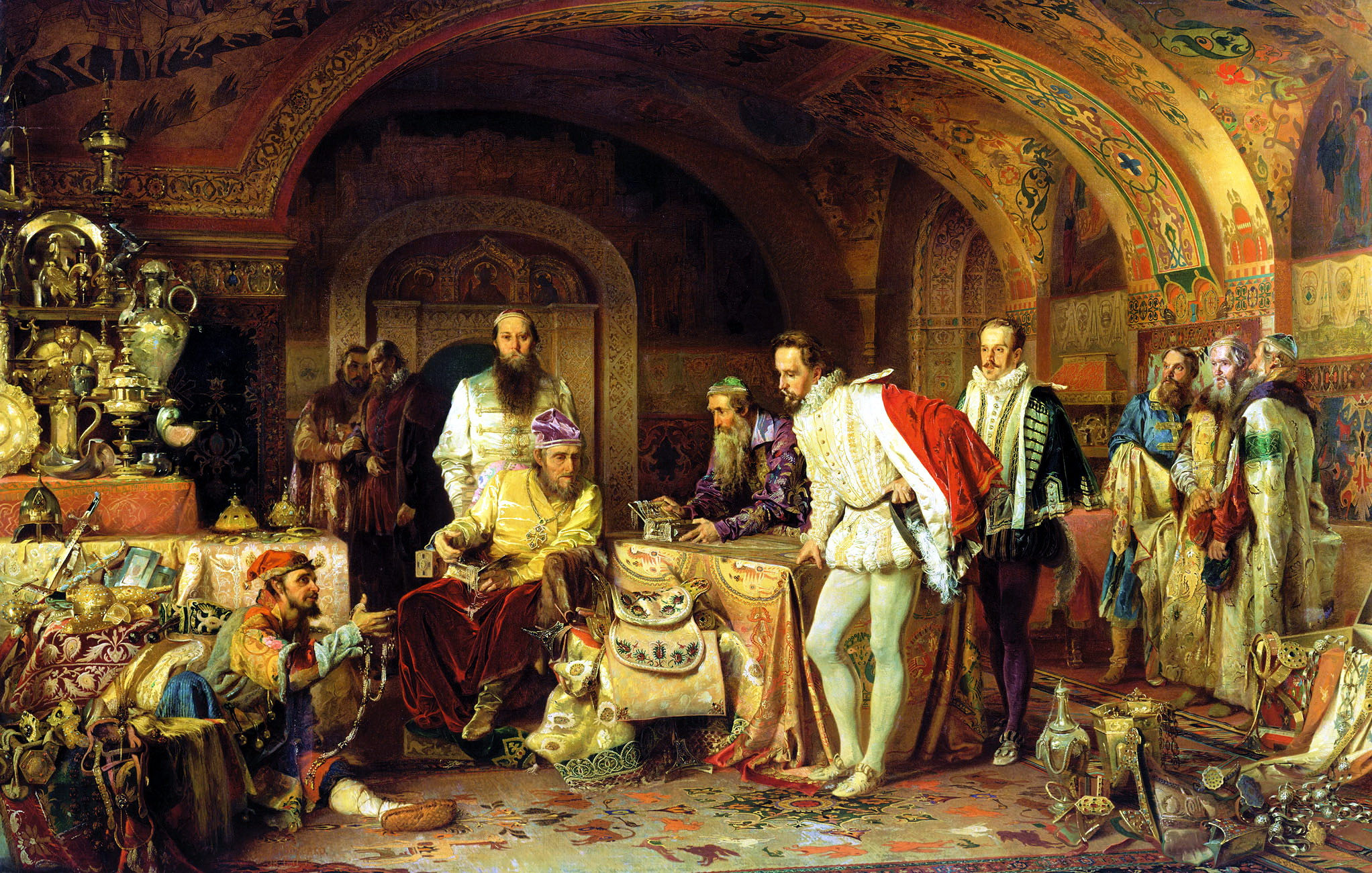 Ivan IV of Russia ("Ivan the Terrible") demonstrates his treasures to the ambassador of Queen Elizabeth I of England